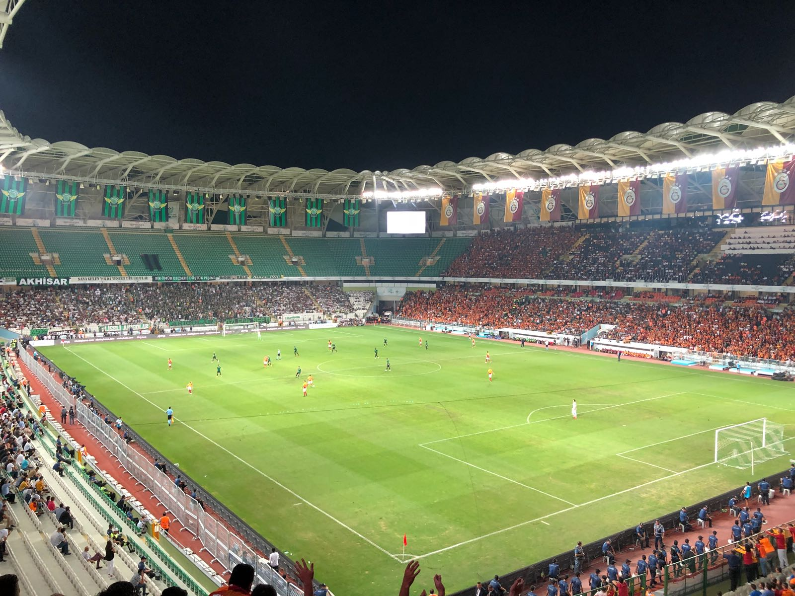 Akhisar Belediyespor vs Galatasaray, 5 August 2018 (2018 Turkey Super Cup)